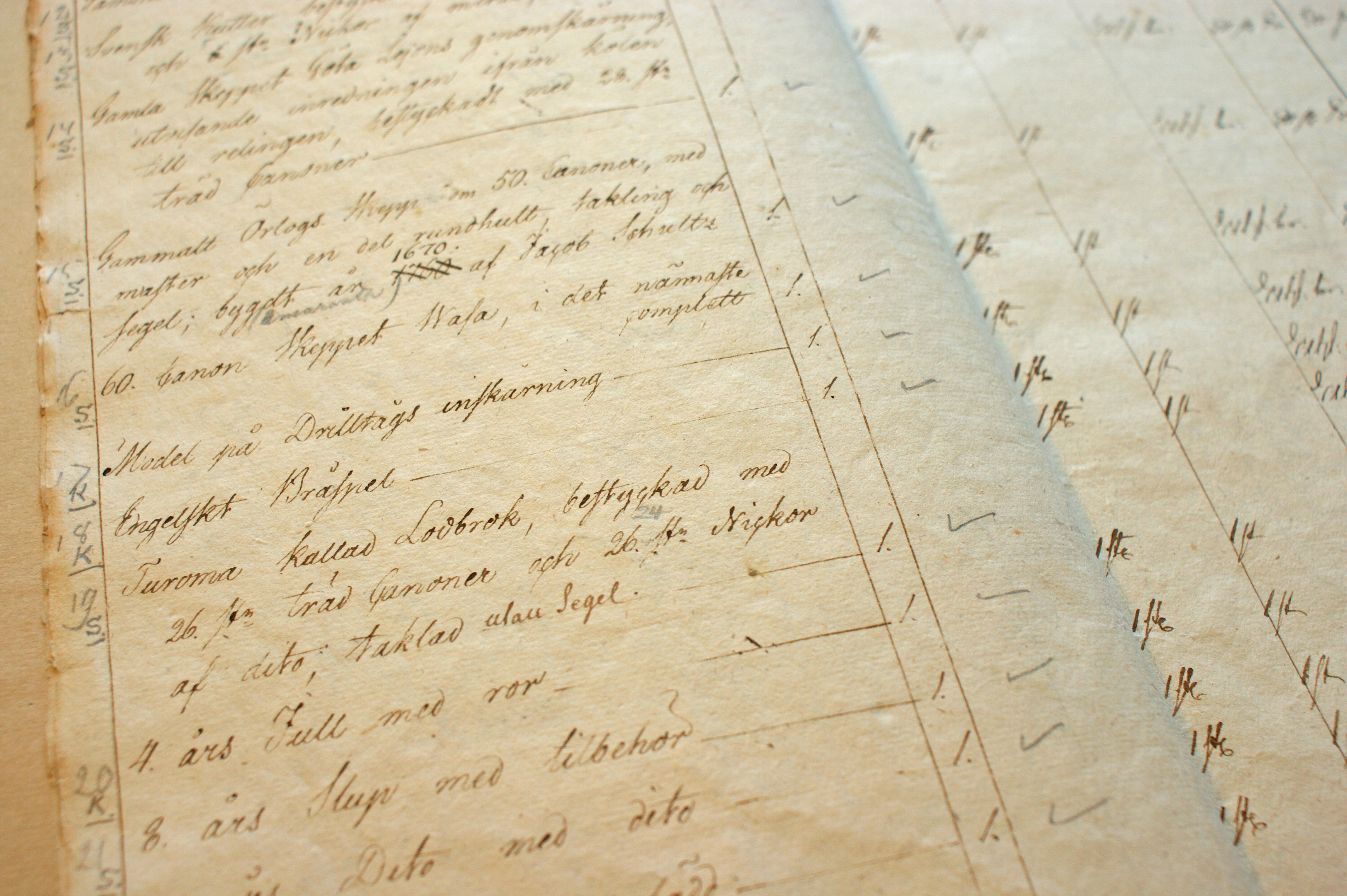 Inventory of the models chamber in Karlskrona.